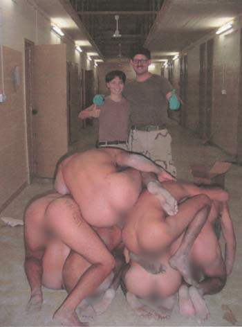 11:51 p.m., Nov. 7, 2003. The detainees were brought into the hard site for their involvement in a riot. The seven detainees were instructed to remove their clothing. Detainees were placed into a human pyramid. CPL GRANER and PFC ENGLAND posed for the picture, which was taken by SPC HARMAN. [Detainee name deleted] is detainee with writing on leg. SOLDIERS: CPL GRANER AND PFC. All caption information is taken directly from CID materials. U.S. Army/Criminal Investigation Command (CID). Seized by the U.S. Government.